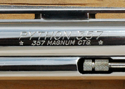 Photo © by Jeff Dean